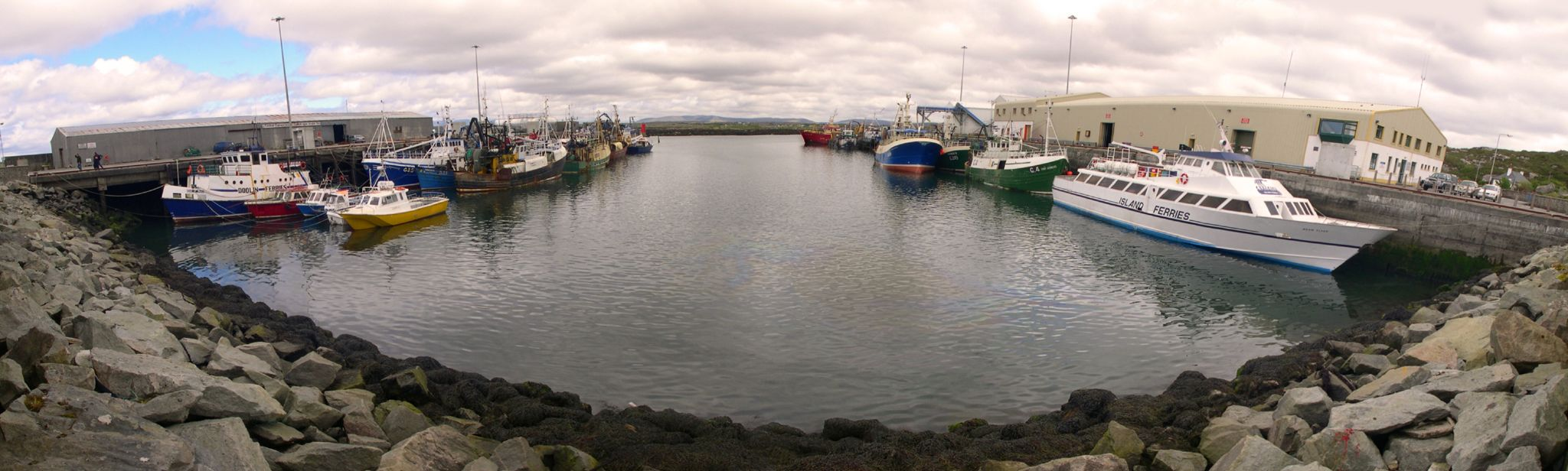 Rossaveel Harbor, Co. Galway, Ireland